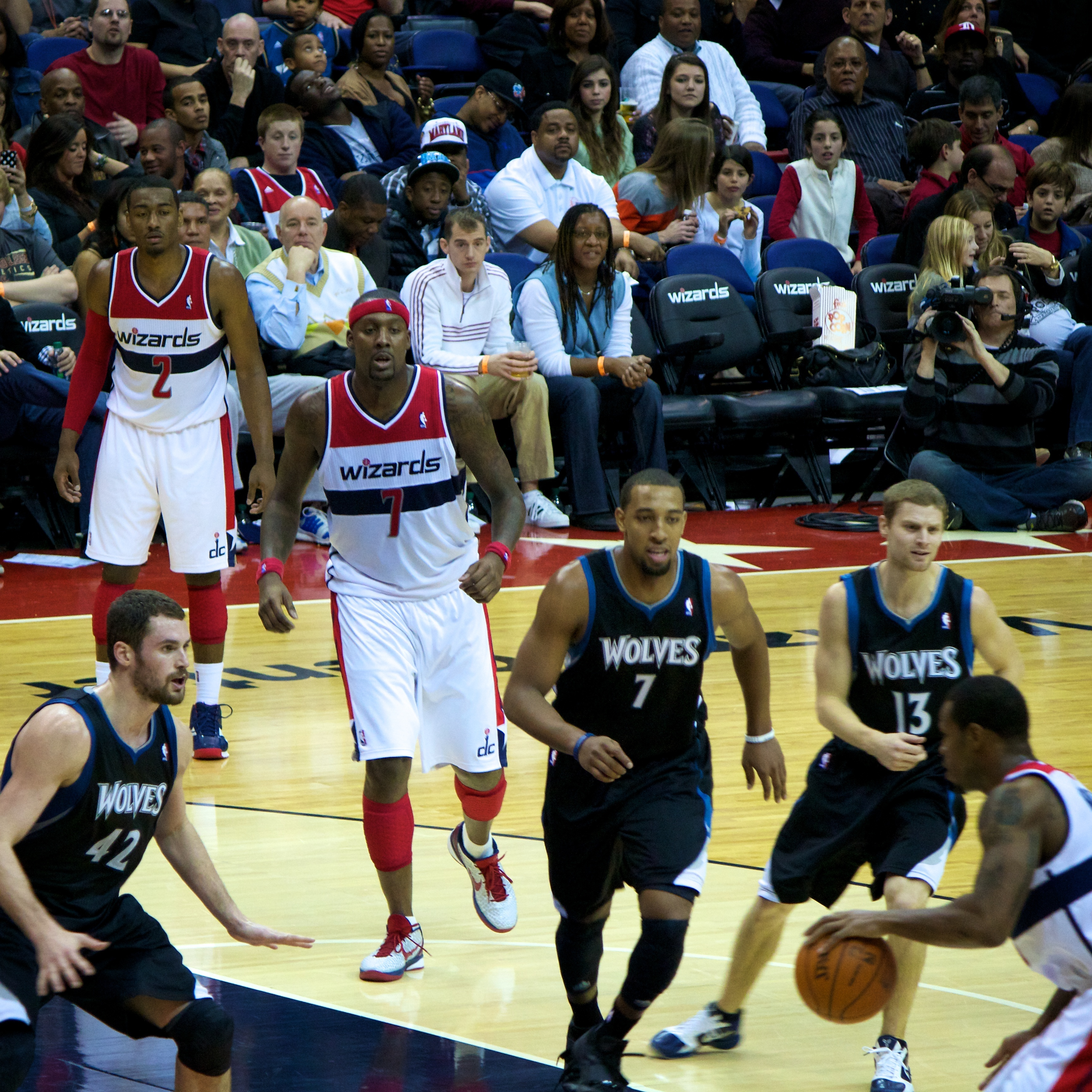 Trevor Booker makes a move as three Timberwolves collapse on defense as Wall and Blatche look on.